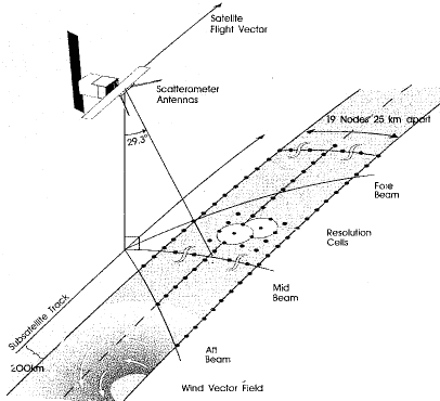 Scatterometer instruments on board satellites